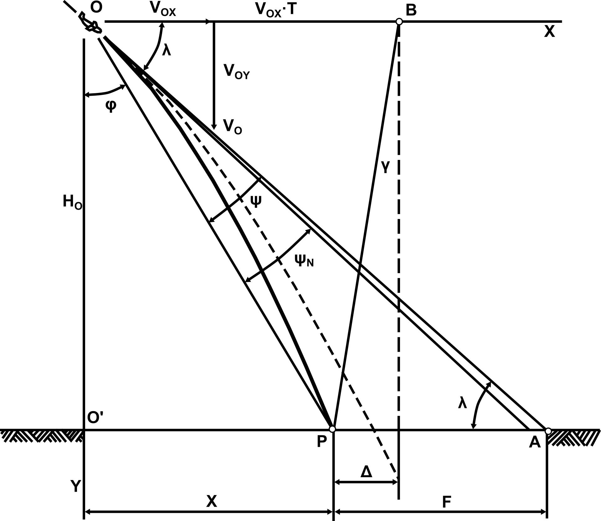 The trajectory of the bomb in the bombing and diveing in the still air